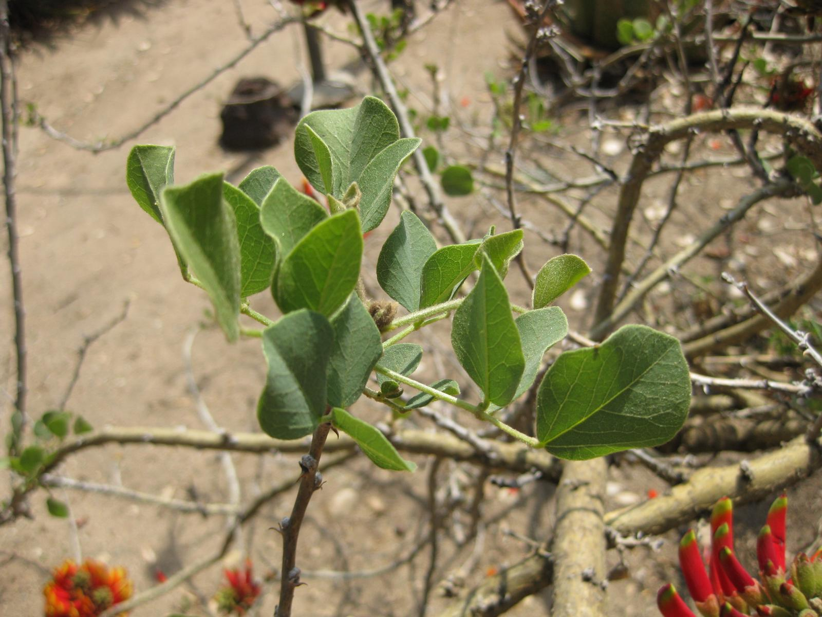 Photographed at Huntington Gardens (Los Angeles) in April